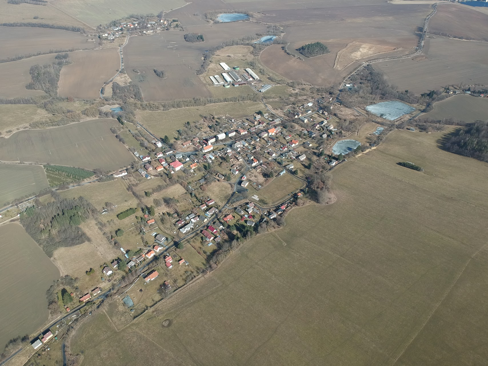 Mutěnín